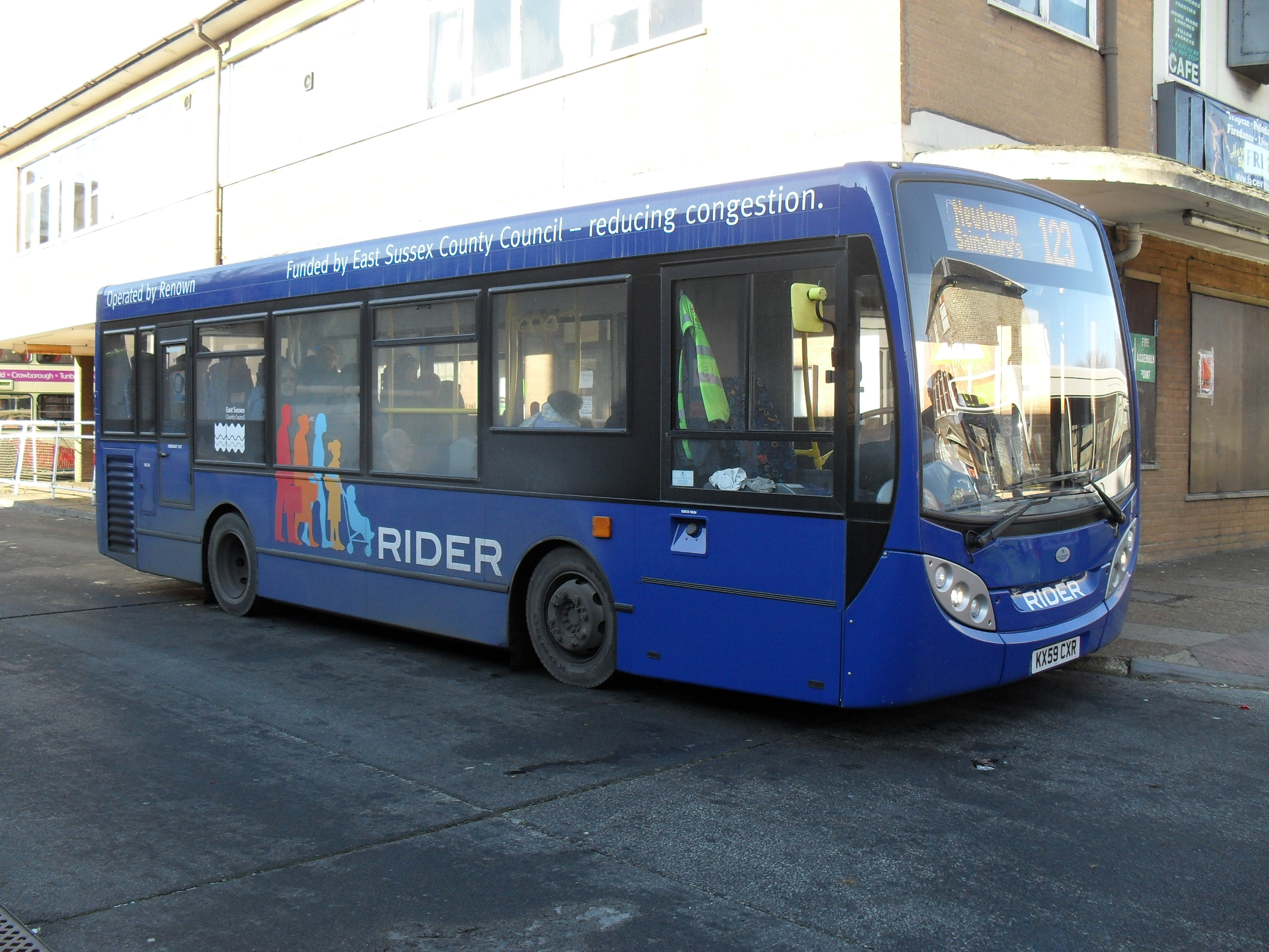 Renown's route #123 runs from the Malling Estate in the northeast of Lewes to Newhaven via Kingston-near-Lewes, Rodmell and Piddinghoe. All sorts of buses can turn up on this hourly service (see evidence elsewhere in my photos!); KX59 CXR is a nice new one in East Sussex Rider livery. Taken on 29th November 2010 at Lewes Bus Station.